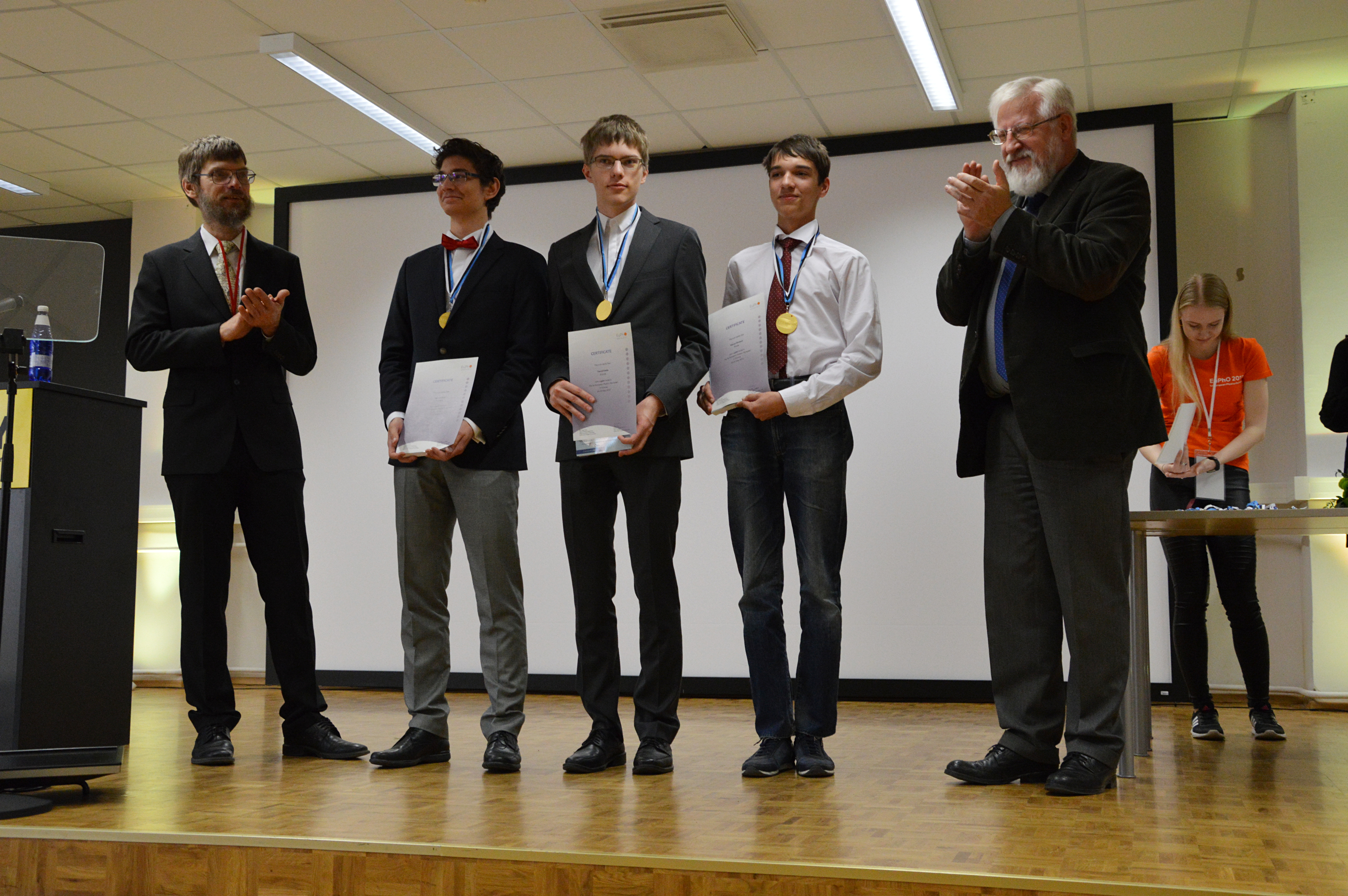 EuPhO 2017 winners together with Jaan Kalda and Tarmo Soomere.